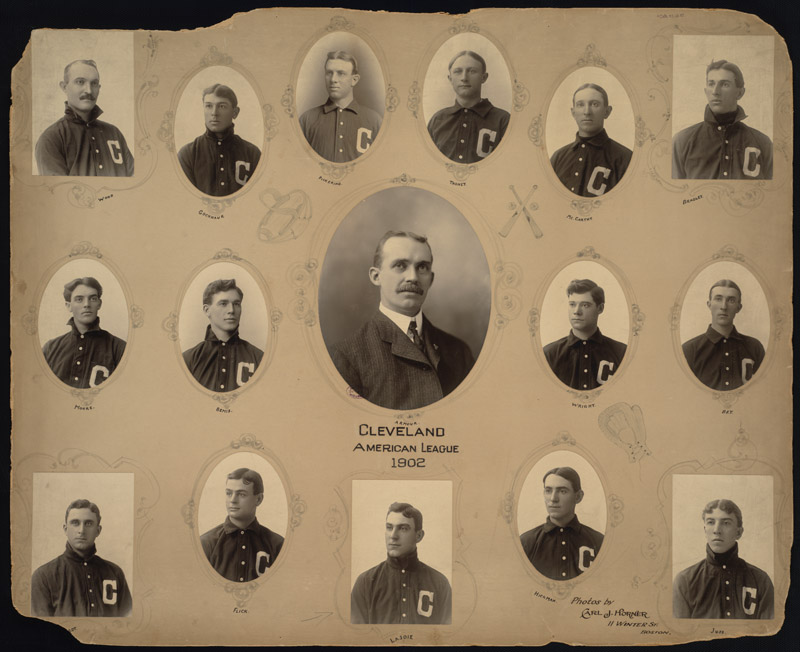 Accession No.: 06_06_000177 Title: Cleveland Blues Baseball Team, 1902 Caption: Cleveland, American League, 1902 Creator: Horner, Charles J. Date: 1902 Format: photograph Description: Individual portraits on mount with decorative vignettes in ink wash. In center, portrait of Bill Armour, Cleveland manager. Top row, left to right: Bob Wood, catcher, John Gochnauer, shortstop, Ollie Pickering, outfielder, Jack Thoney, second baseman, Jack McCarthy, outfielder, Bill Bradley, third baseman. Middle row: Earl Moore, pitcher, Harry Bemis, catcher, Armour, Clarence Wright, pitcher, Harry Bay, outfielder. Bottom row: Bill Bernhard, pitcher, Elmer Flick, outfielder, Nap Lajoie, second baseman, Charlie Hickman, first baseman, Addie Joss, pitcher. BPL Collection: McGreevey Collection BPL Department: Print Subject: Baseball--History Cleveland Blues (Baseball team)